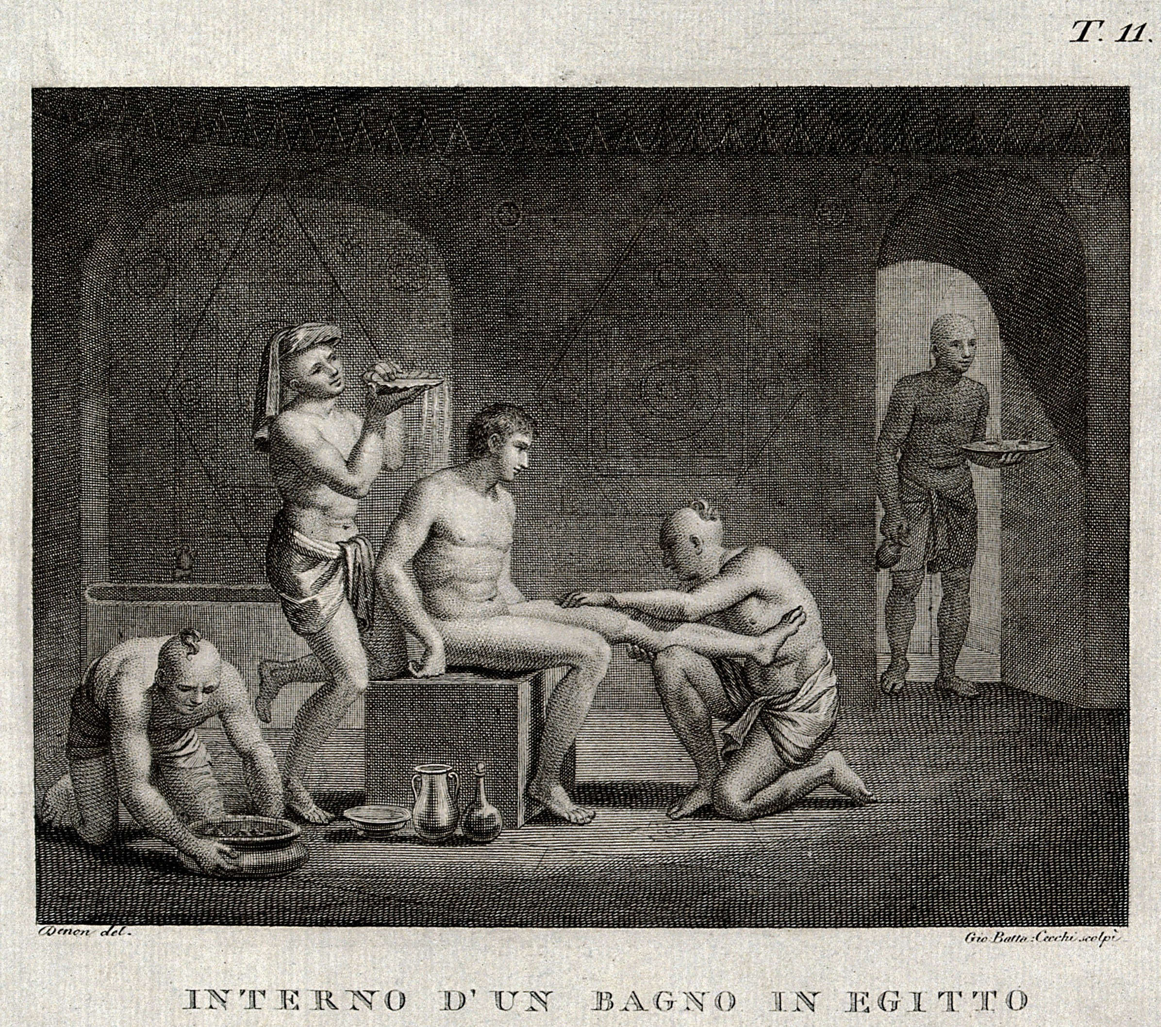 The interior of an Egyptian bath-house; a seated man is being washed and attended to by four male servants. Engraving by G.B. Cecchi after Denon. Iconographic Collections Keywords: Giovanni-Battista Cecchi; Vivant Dominique Vivant-Denon